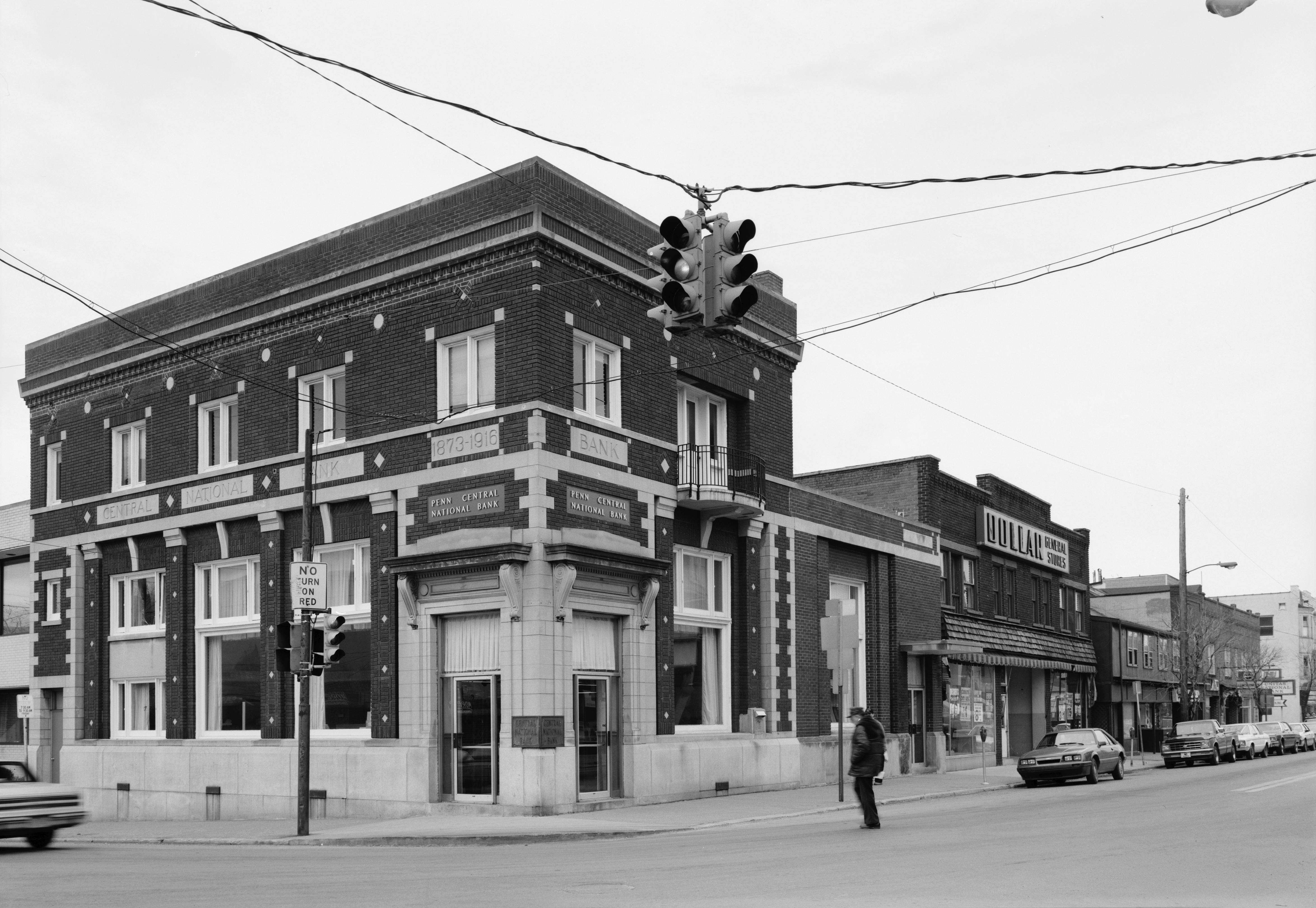 Eastward along Shirley Street (Pennsylvania Route 747) from the Jefferson Street intersection in downtown West Union, Pennsylvania, United States. This block of Mount Union is part of the Mount Union Historic District, a historic district that is listed on the National Register of Historic Places.